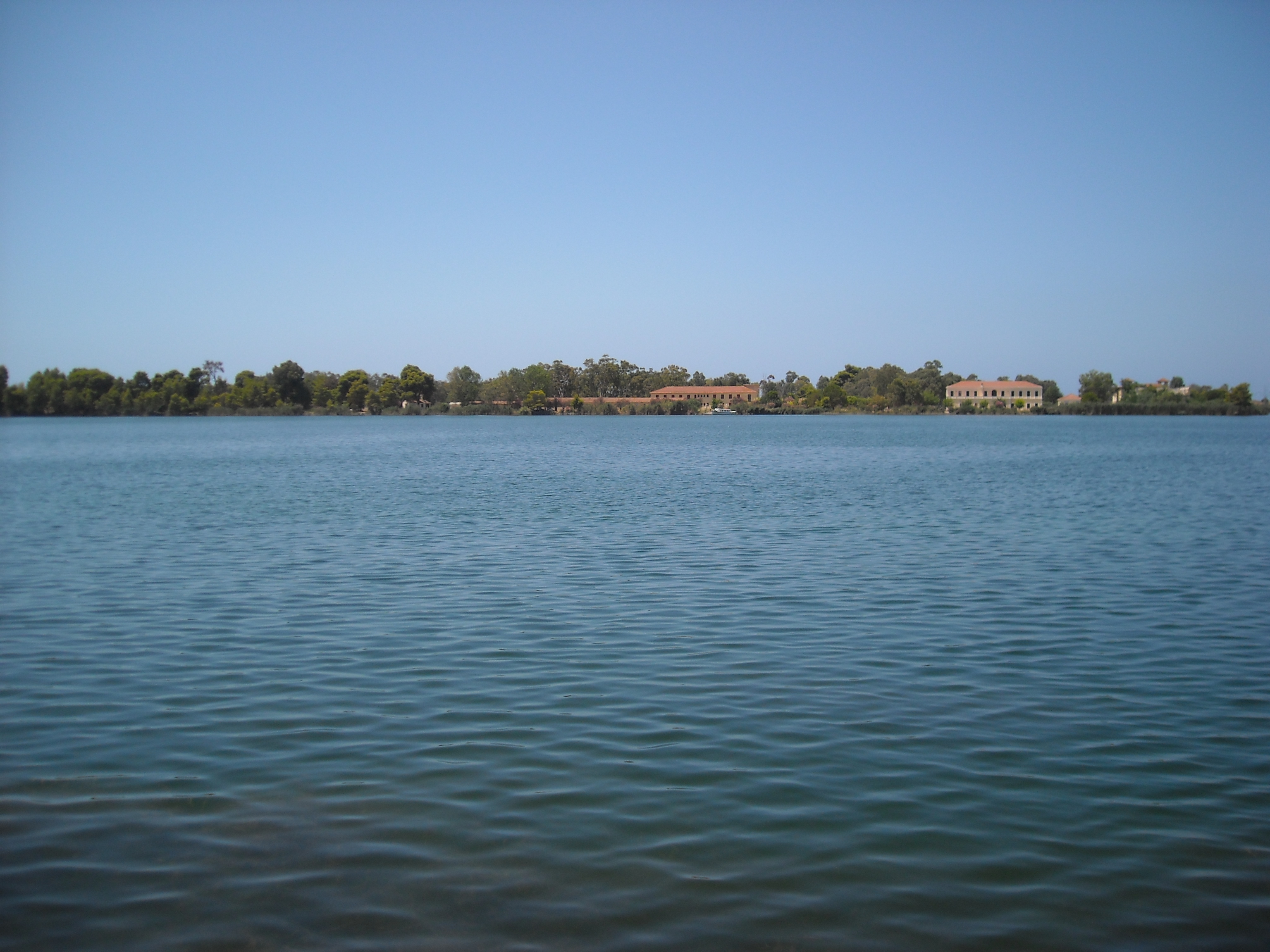 View of Kaiafas Lake and the hotels on the lake's island